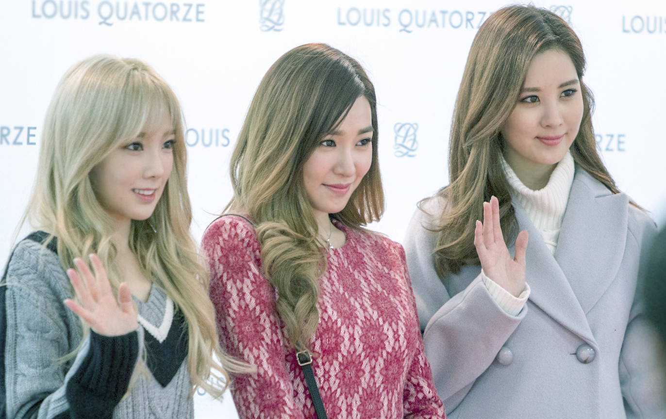 TaeTiSeo at a fan signing event for Louis Quatorze on November 27, 2015.